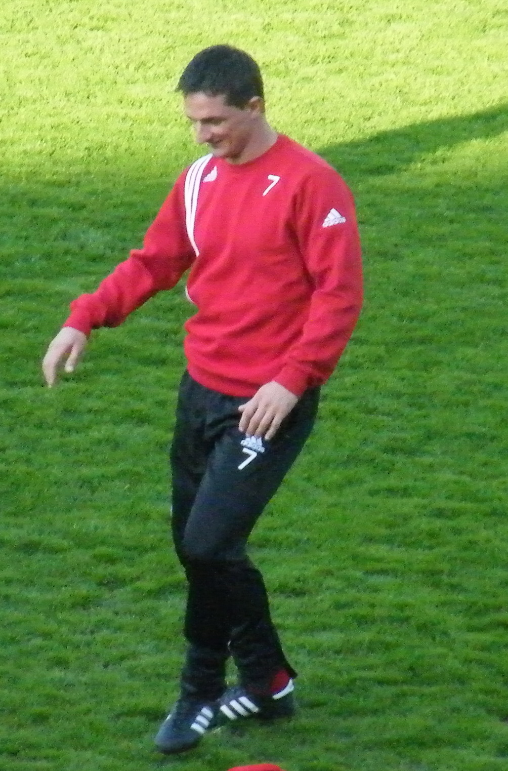 Tibor Dombi Hungarian football player